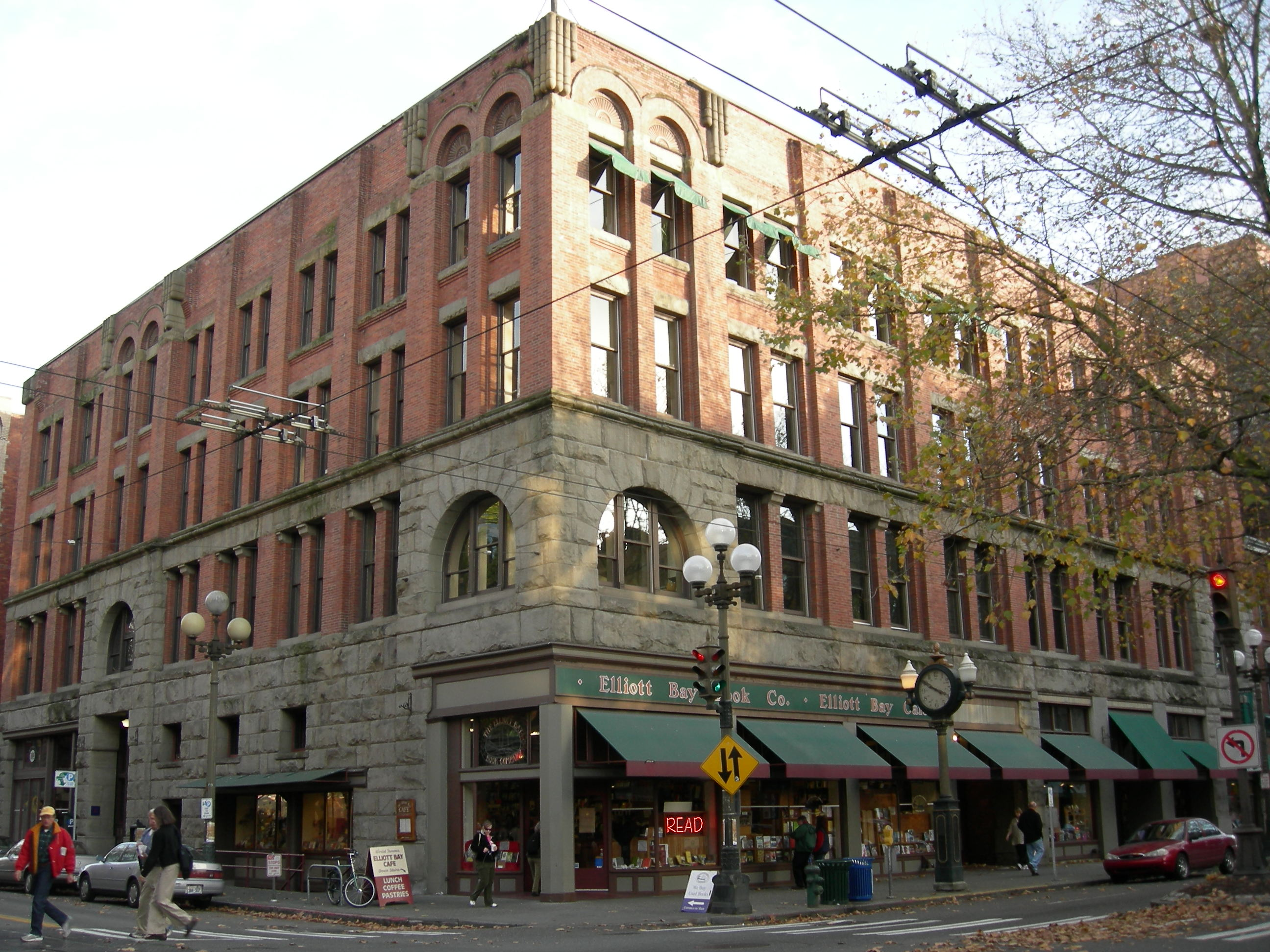 Globe Building, also known as Marshall-Walker Building, 310 First Avenue South, Pioneer Square neighborhood, Seattle, Washington, USA. Built 1891. From 1898 into the 1960s, the north half of the building was the Globe Hotel. The Seattle Quilt Company was a tenant from 1926 into the 1970s. The ground floor is now home to Elliott Bay Books. For more information see Summary for 310 1st AVE / Parcel ID 5247800320, Seattle Department of Neighborhoods. This is the same building, despite their having accidentally omitted "South" from the address.